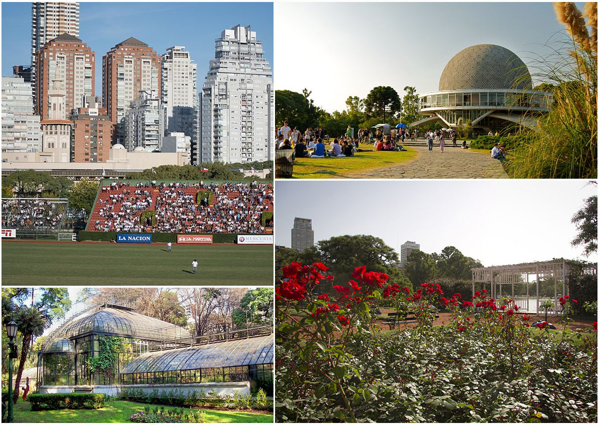 Photo montage of the Buenos Aires district of Palermo